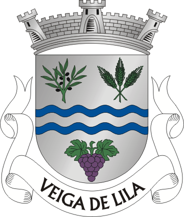 Veiga de Lila scude